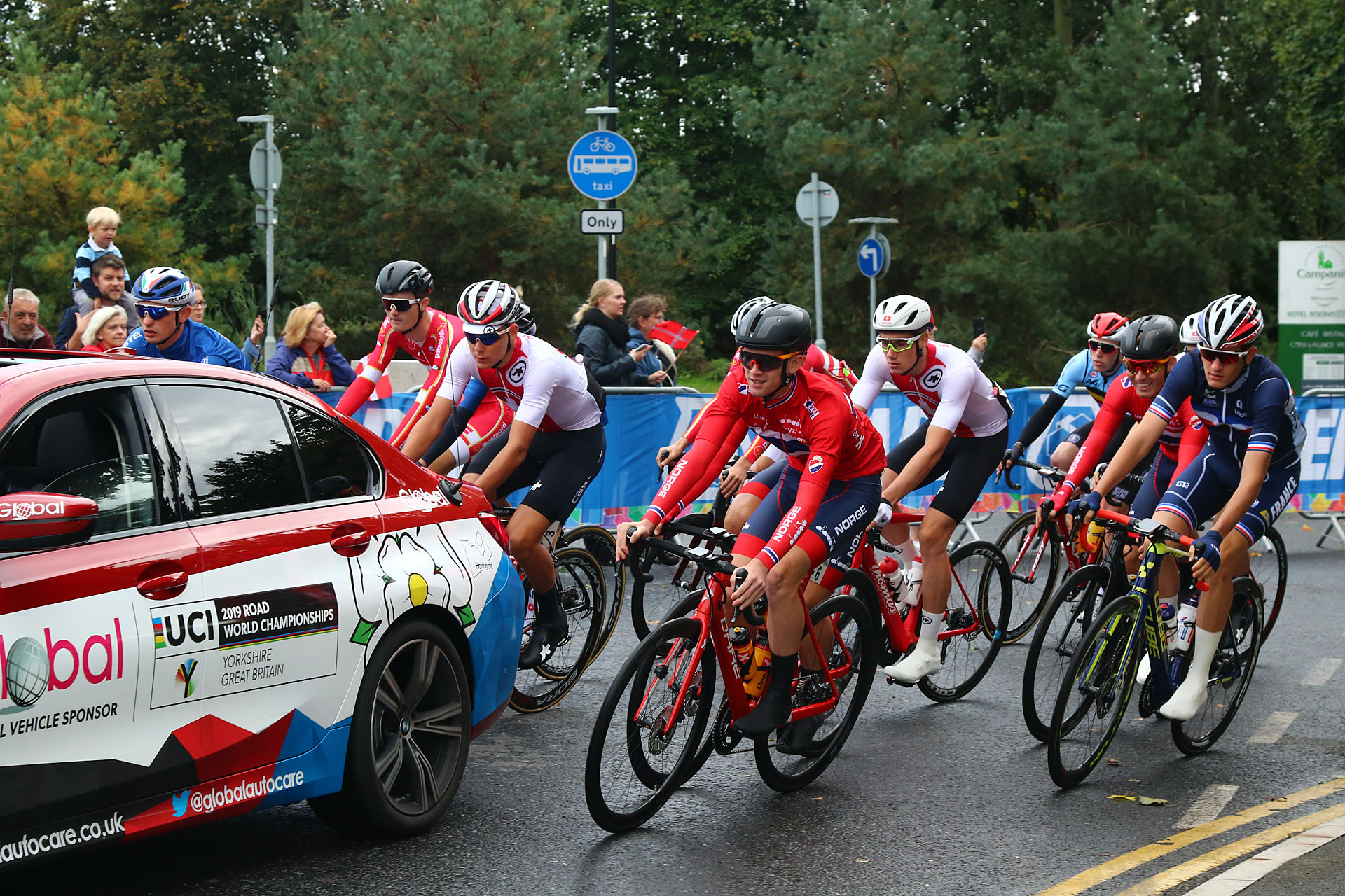 The U23 Mens road race leaves the Doncaster Dome - Fri 27-Sep-2019